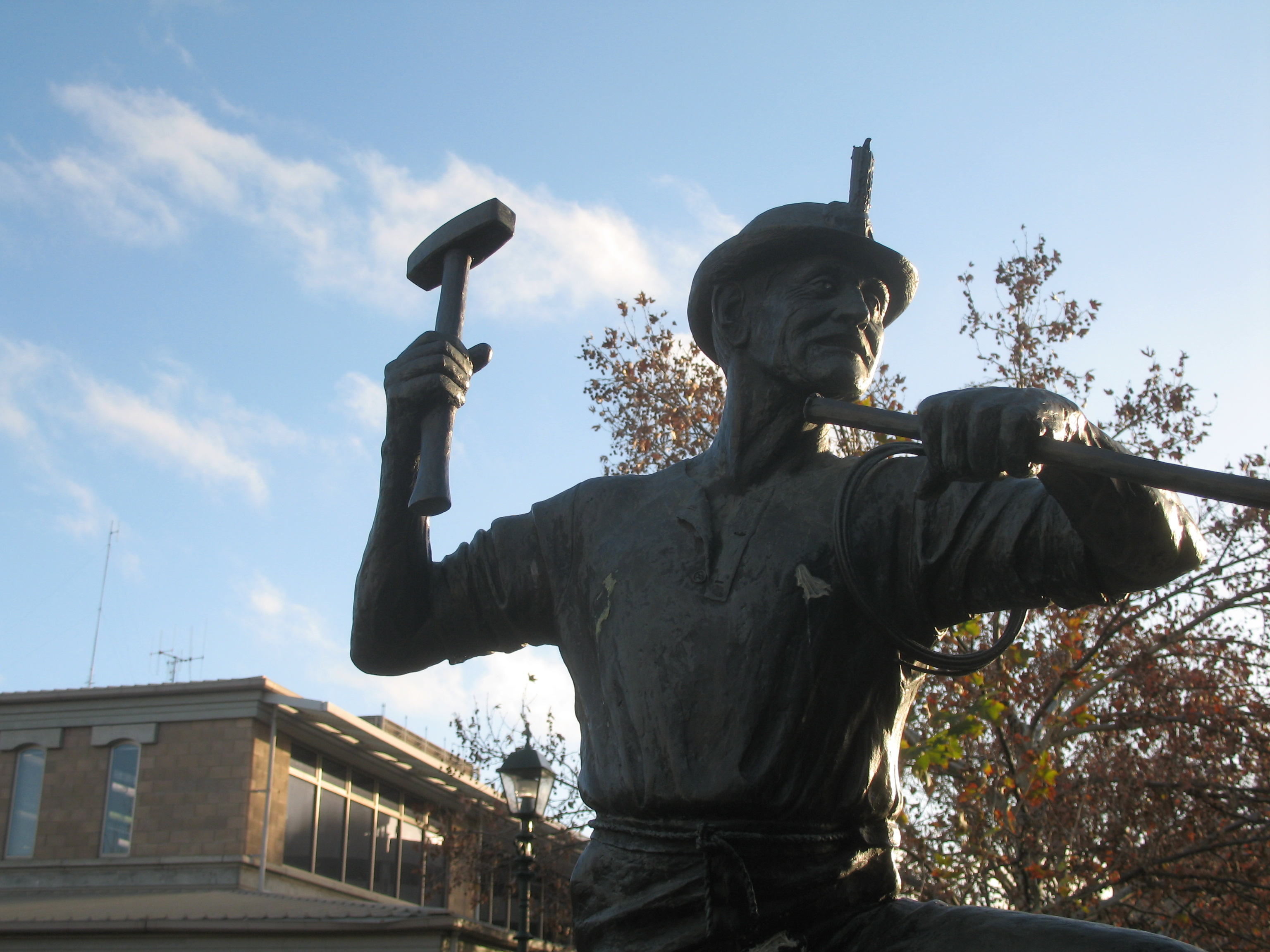 Statue commemorating the many Cornish and German miners who helped build Bendigo Victoria Australia's gold mining industry